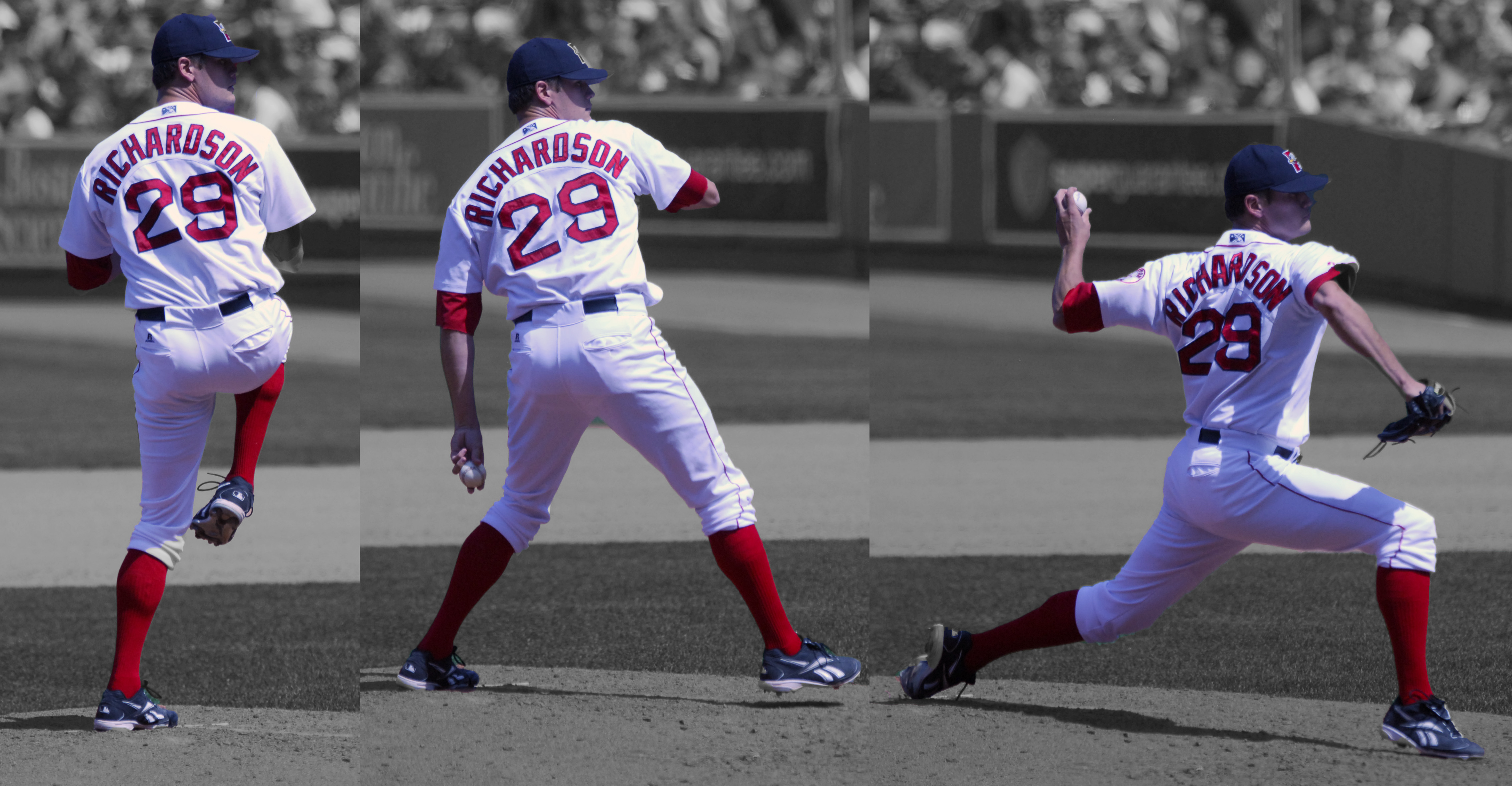 File showing three different points in Dustin Richardson's delivery of a pitch in 2009